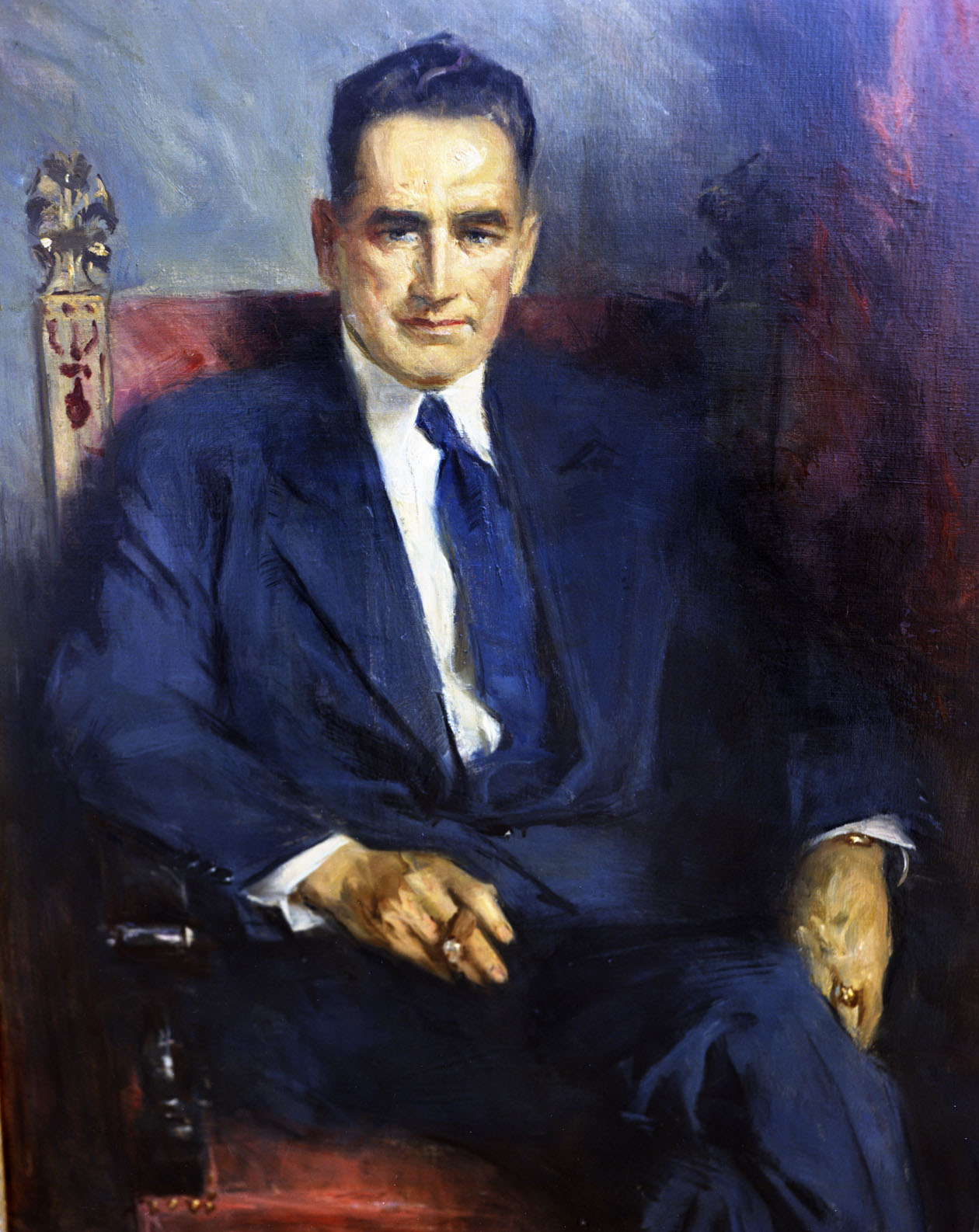 W. Kerr Scott, 1949-1953 From the General Negative Collection, State Archives of North Carolina, Raleigh, NC.